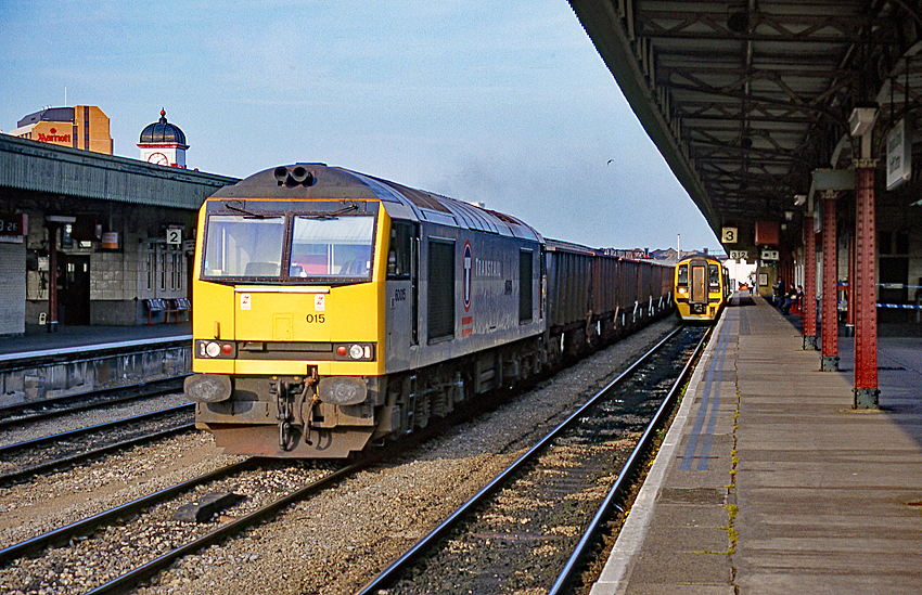 60015 Bow Fell in Railfreight grey livery with Transrail branding hauling a freight train through Cardiff General in 1996. Scanned from a Fujichrome 35mm slide.